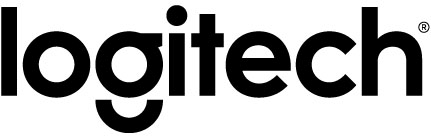 Logitech logo.